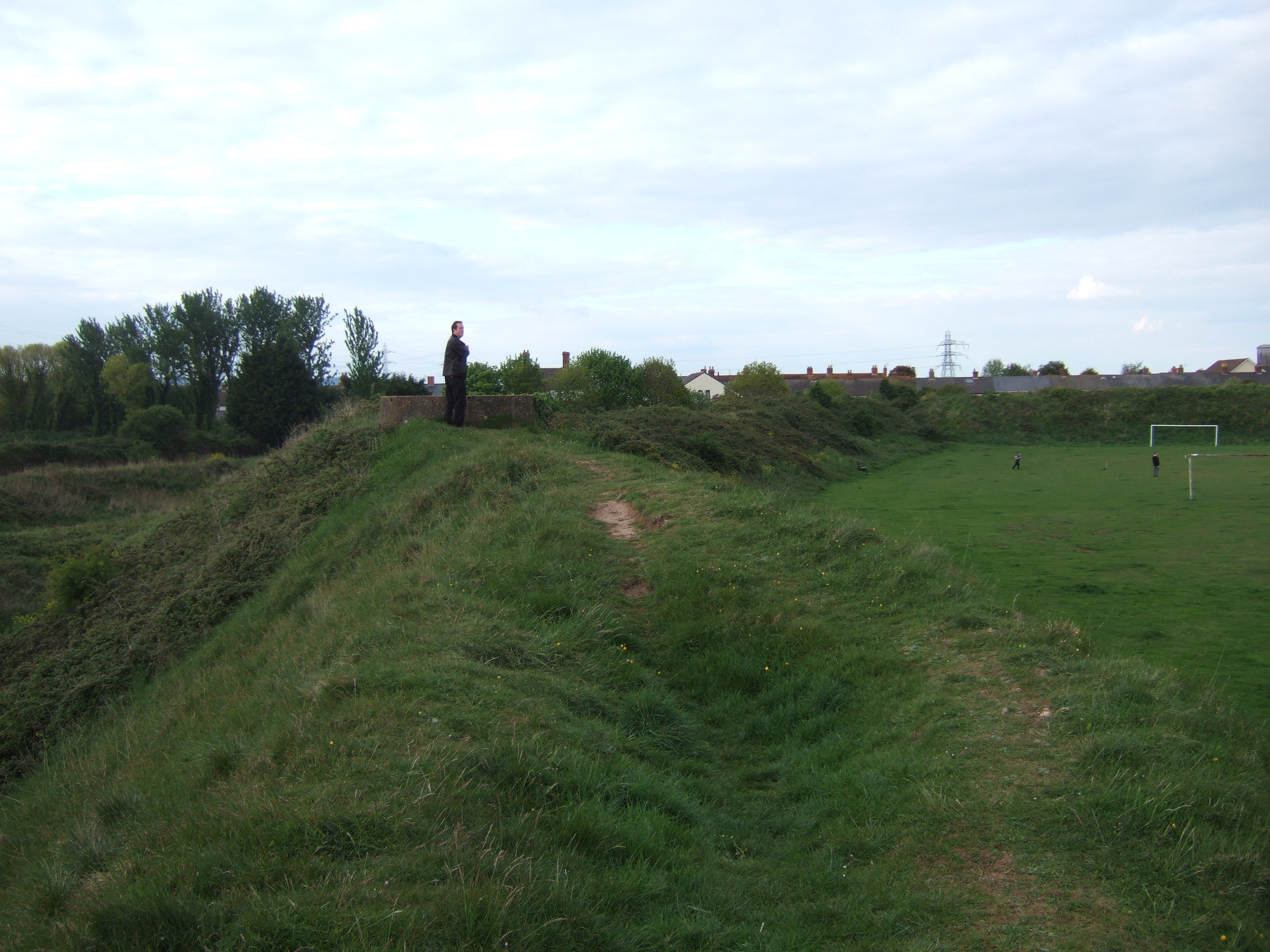 Iron age hillfort at Sudbrook. Photographed from the ramparts the enclosure of which (to the right) is now used as a sports field. To the left can be seen the site of the now-closed papermill.